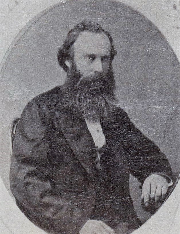 Portrait of John Howard Angas.